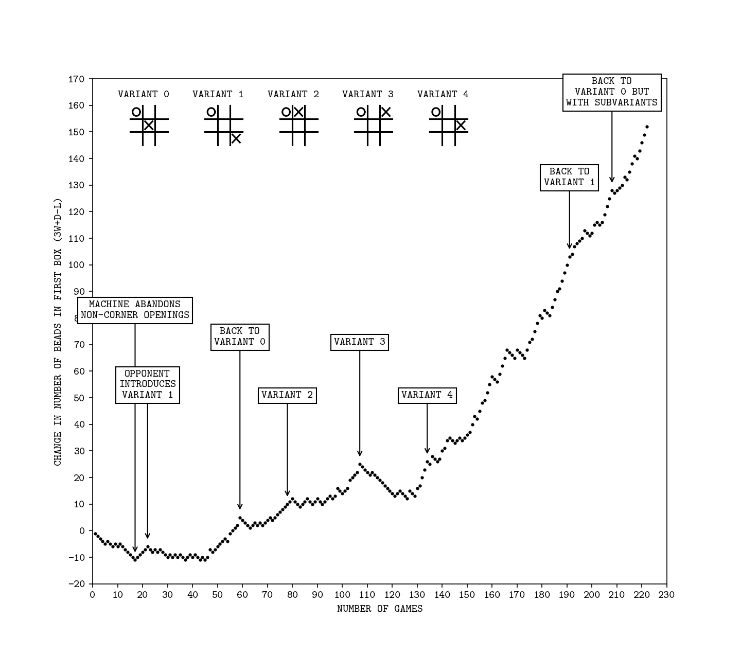 This graph shows the results of Donald Michie's games against MENACE. This is a recreation of a graph that was published in Michie's 1961 article Trial and error in Penguin Science Survey 2.